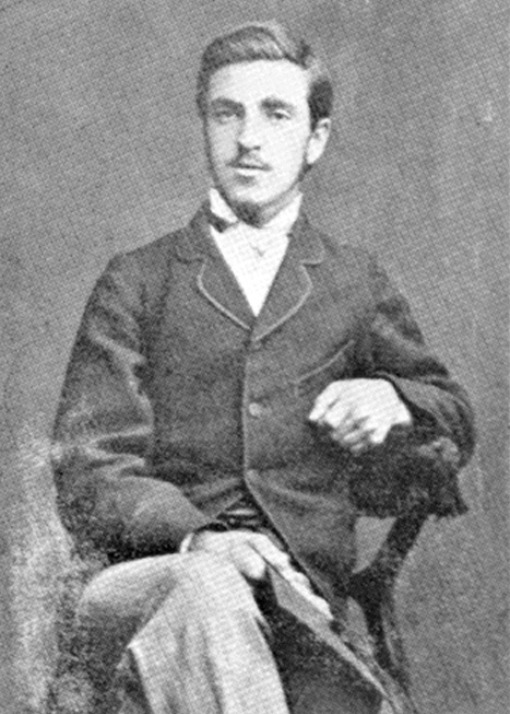 Thomas Ball Barratt, 16 years old. english: Thomas Ball Barratt norwegian: Thomas Ball Barratt